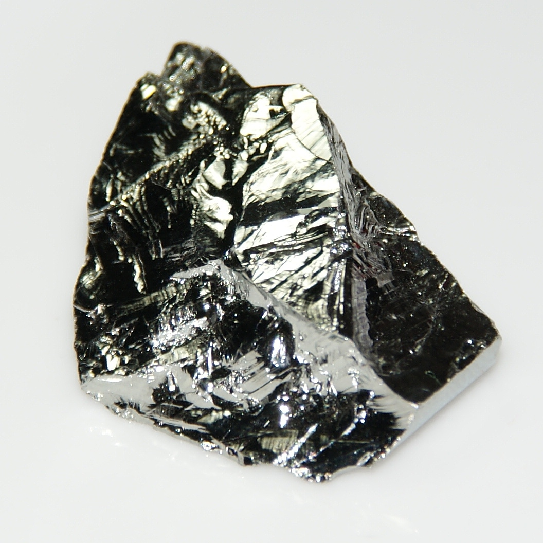 12 grams polycrystalline germanium, 2*3 cm.